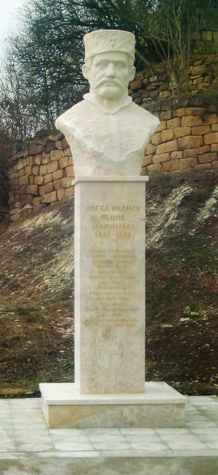 Паметник на Ангел Иванов в с.Белимел